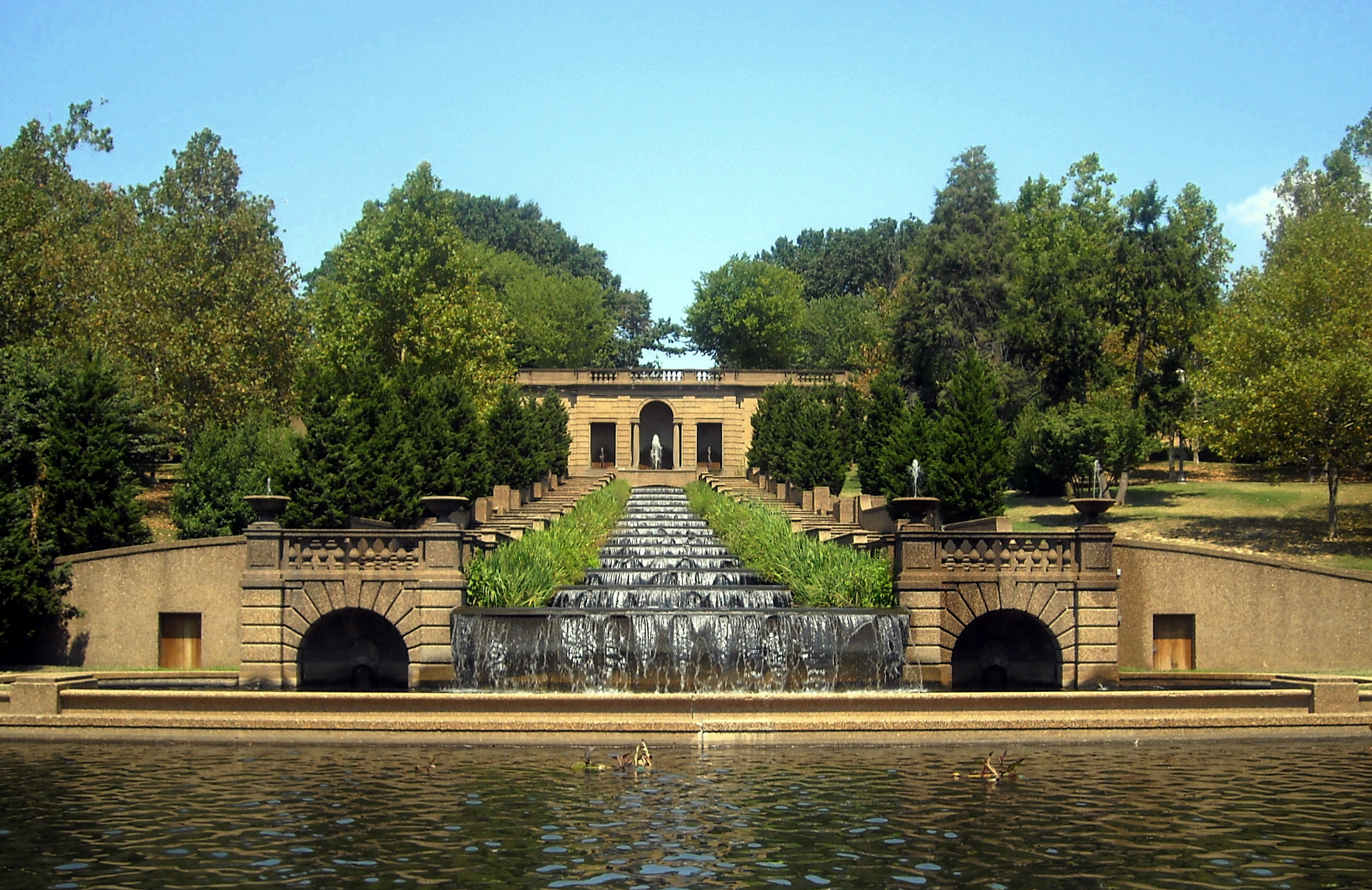 The fountain located at Meridian Hill Park in the Columbia Heights neighborhood of Washington, D.C.